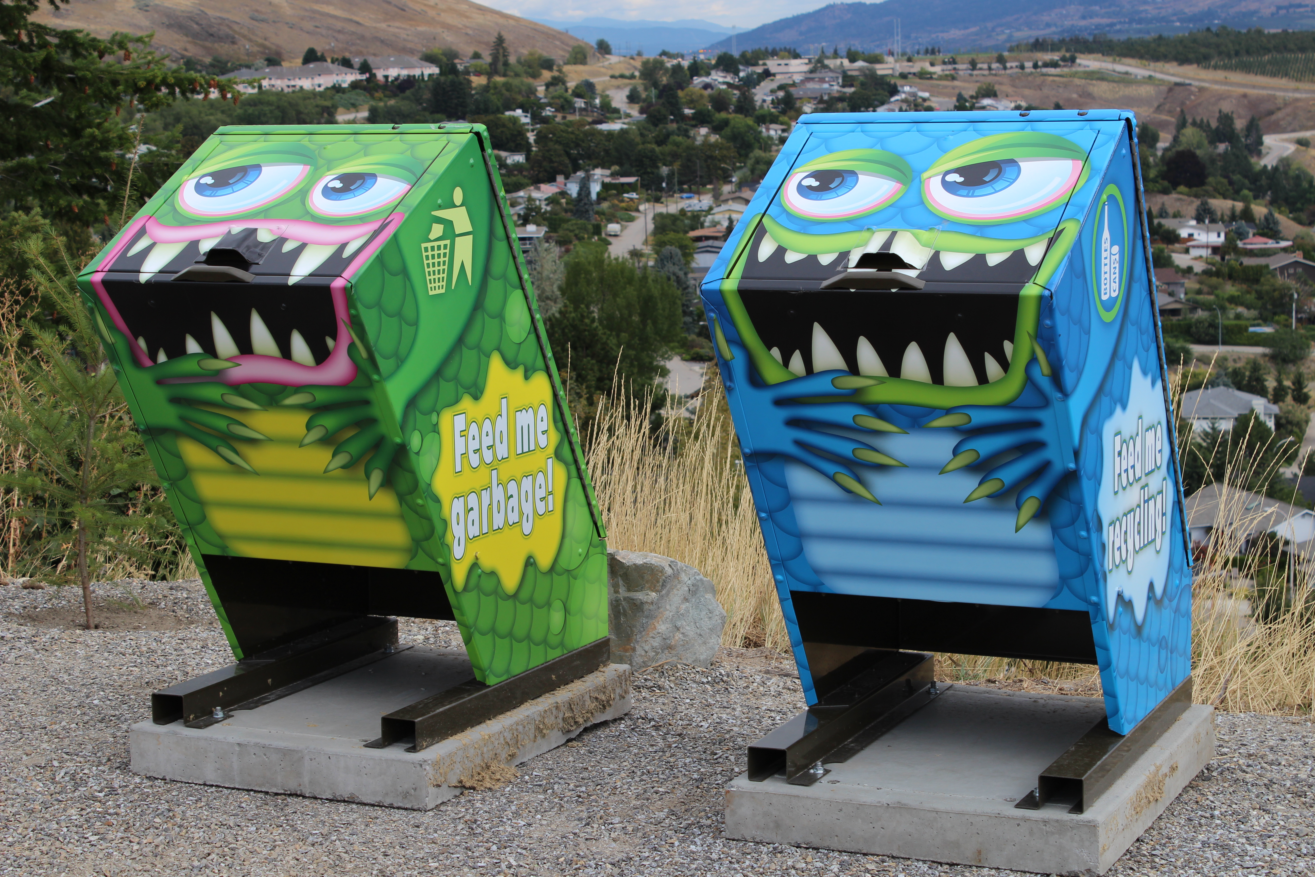 Garbage containers painted to look like monsters.